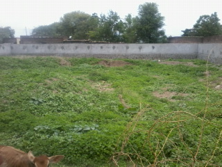 Excavated archaeological site at Ter in Osmanabd district of Maharashtra